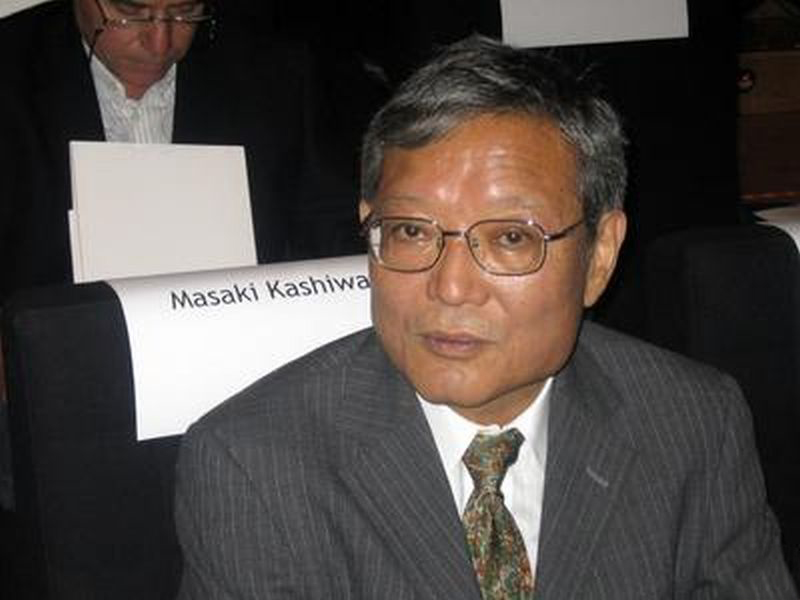 Masaki Kashiwara, ICM Madrid 2006